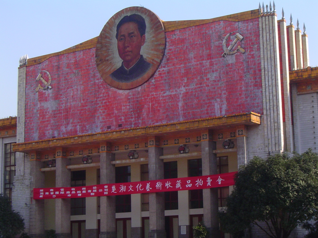 Mao Zedong Museum in Changsha, Hunan province, China